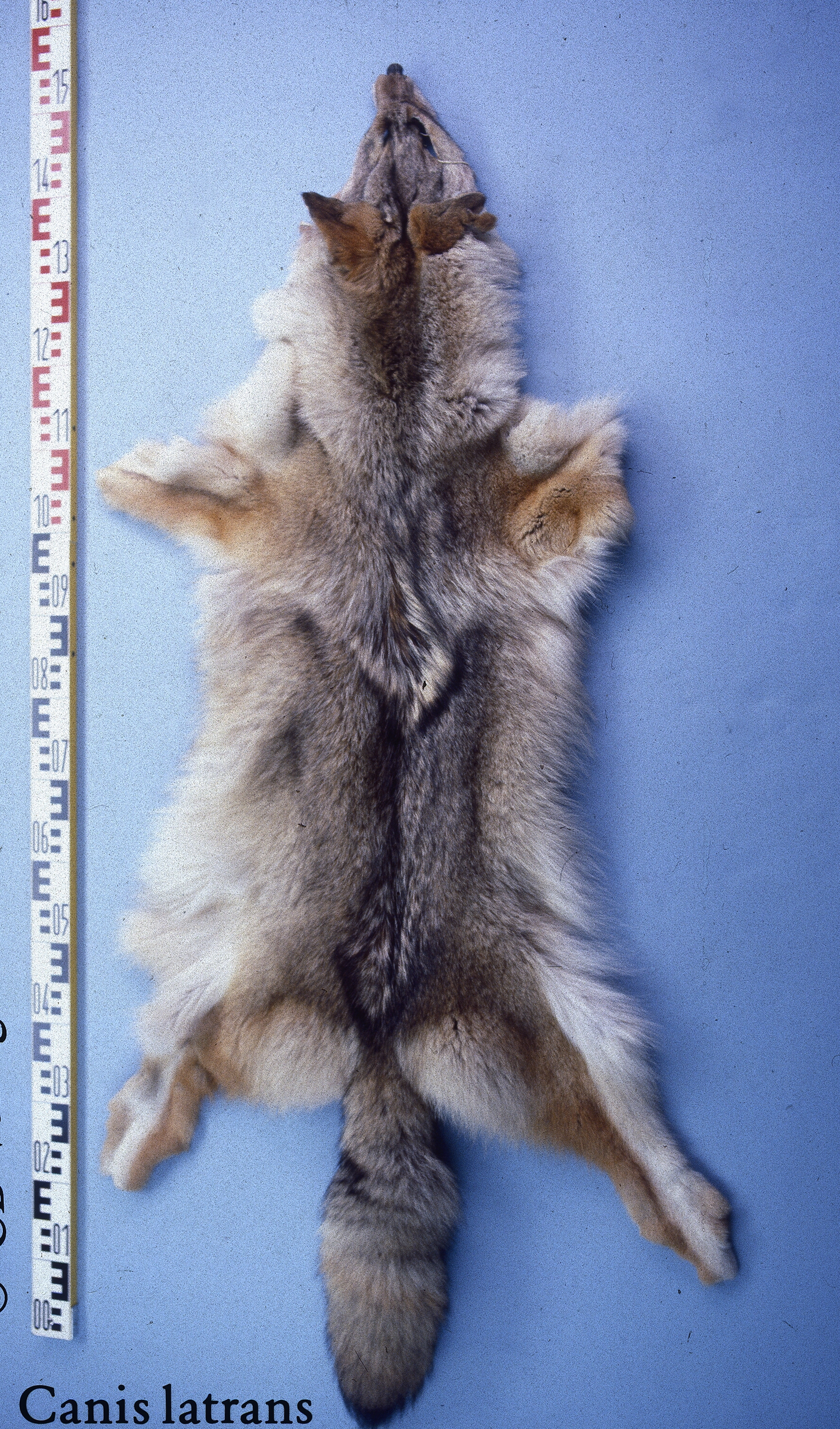 Coyote fur skin (Canis latrans), Canada. Fur skin collection, Bundes-Pelzfachschule, Frankfurt/Main, Germany